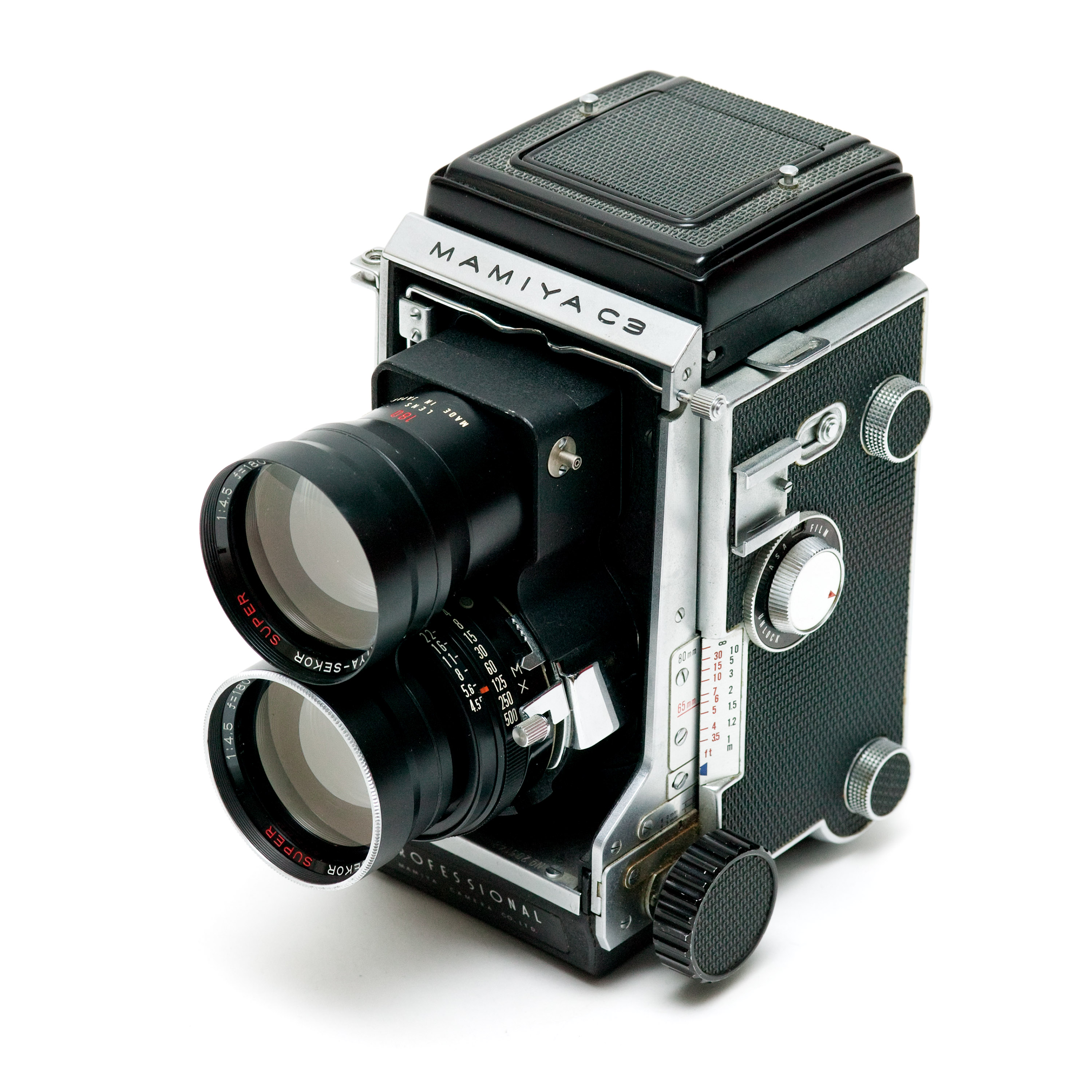 A Mamiya C3 TLR.